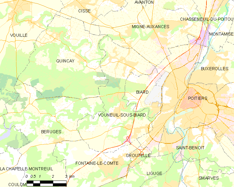 Map of French municipality Vouneuil-sous-Biard